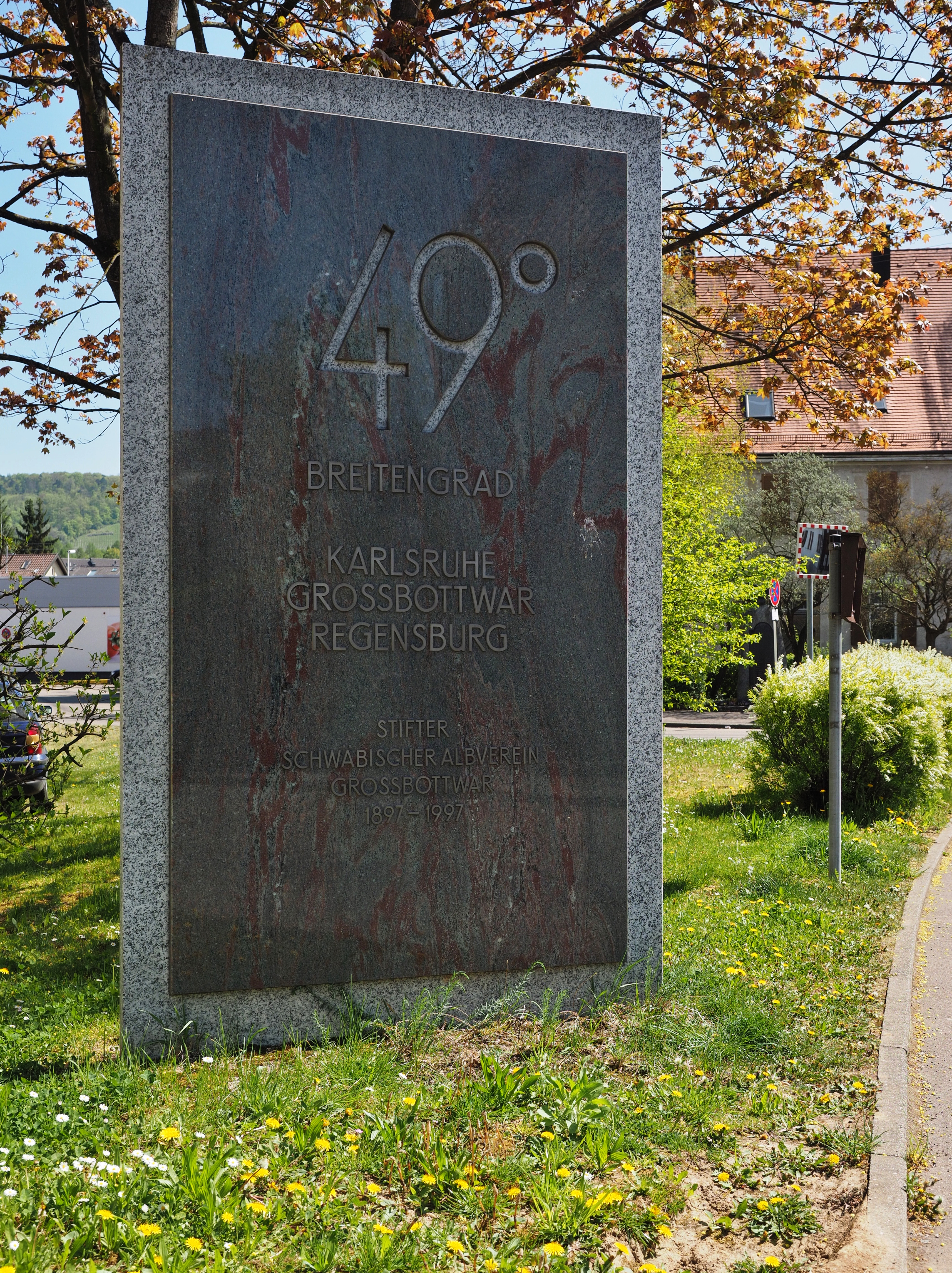 Marker of the 49th degree of northern latitude in Großbottwar, Germany. However, this item is sited about 120 metres south of the actual parallel. View from the south-west.